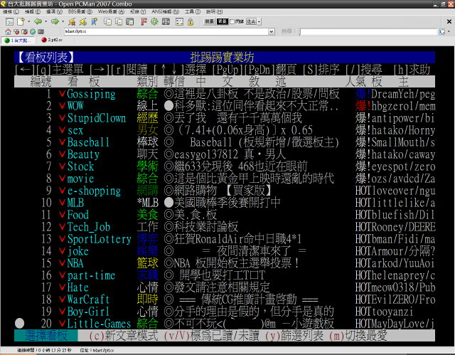 Part of the popular boards of the BBS "PTT".